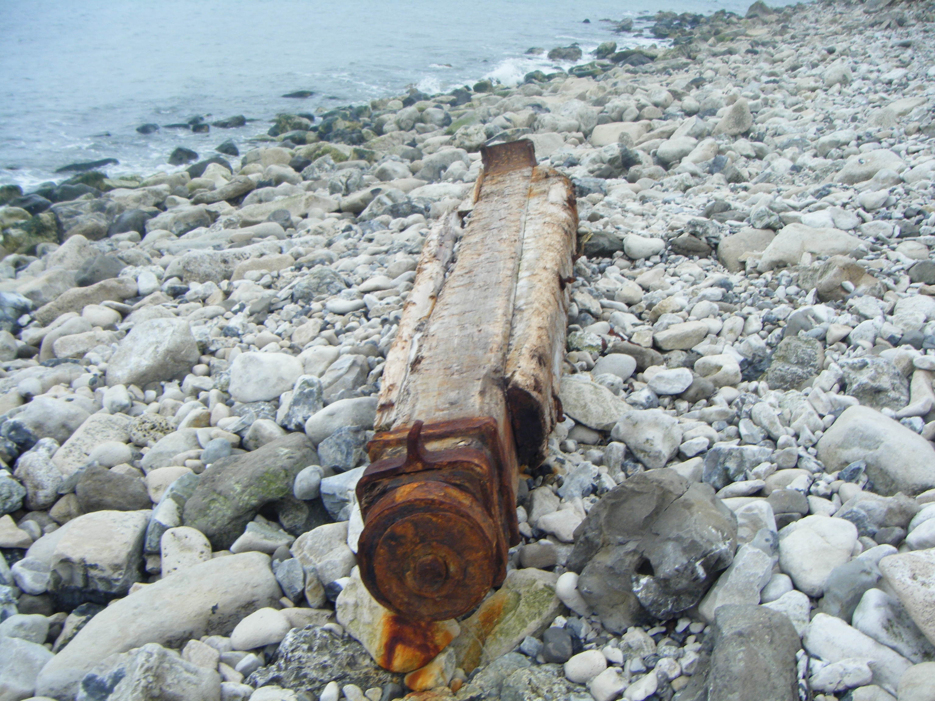 Durdle Pier Portland Crane Remains